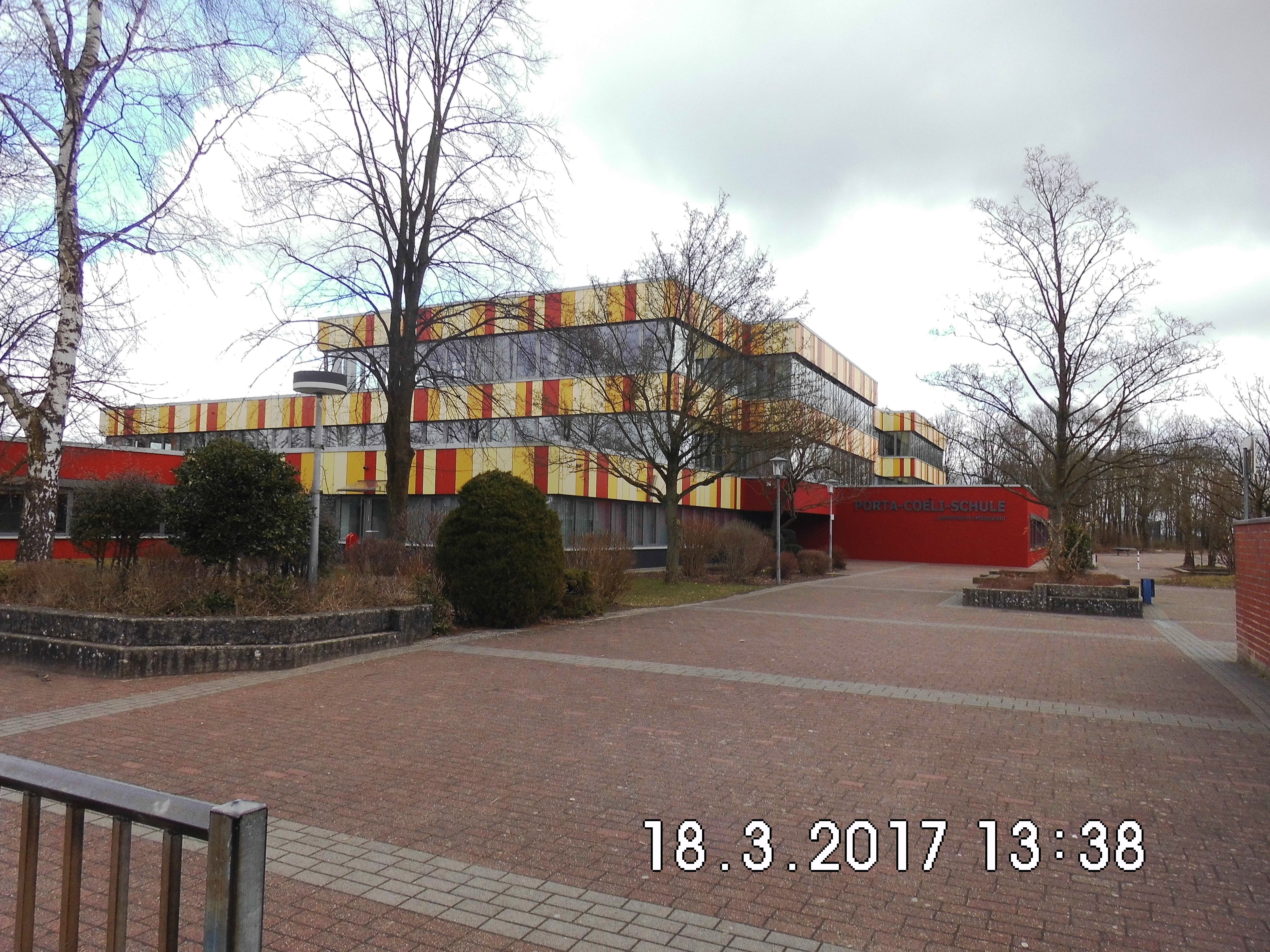 Porta-Coeli-School seen from southwest